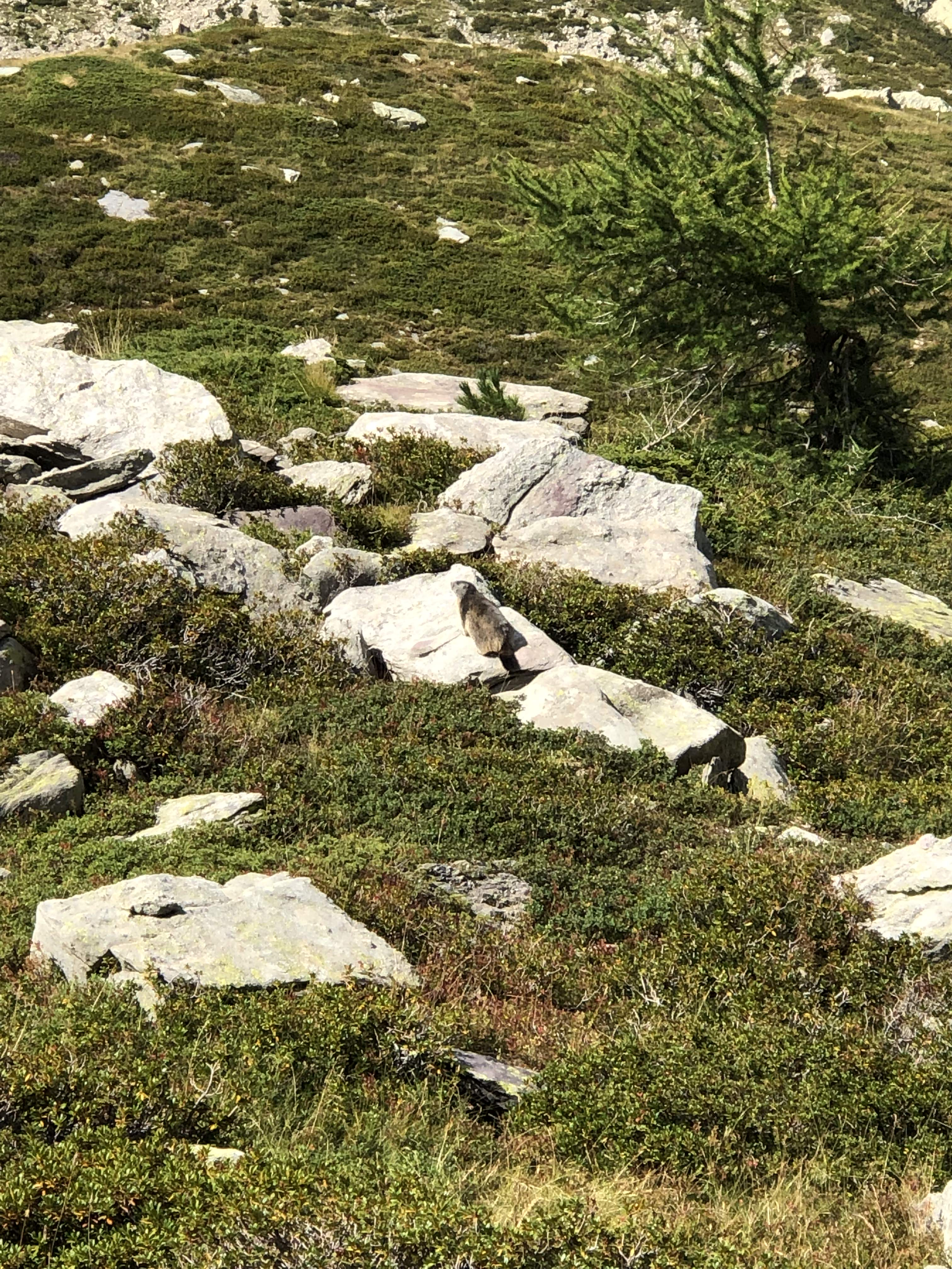 Mercantour fauna example